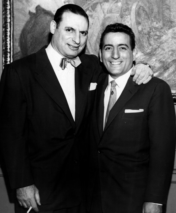 Photo of Chicago media peronality Irv Kupcinet with singer Tony Bennett.